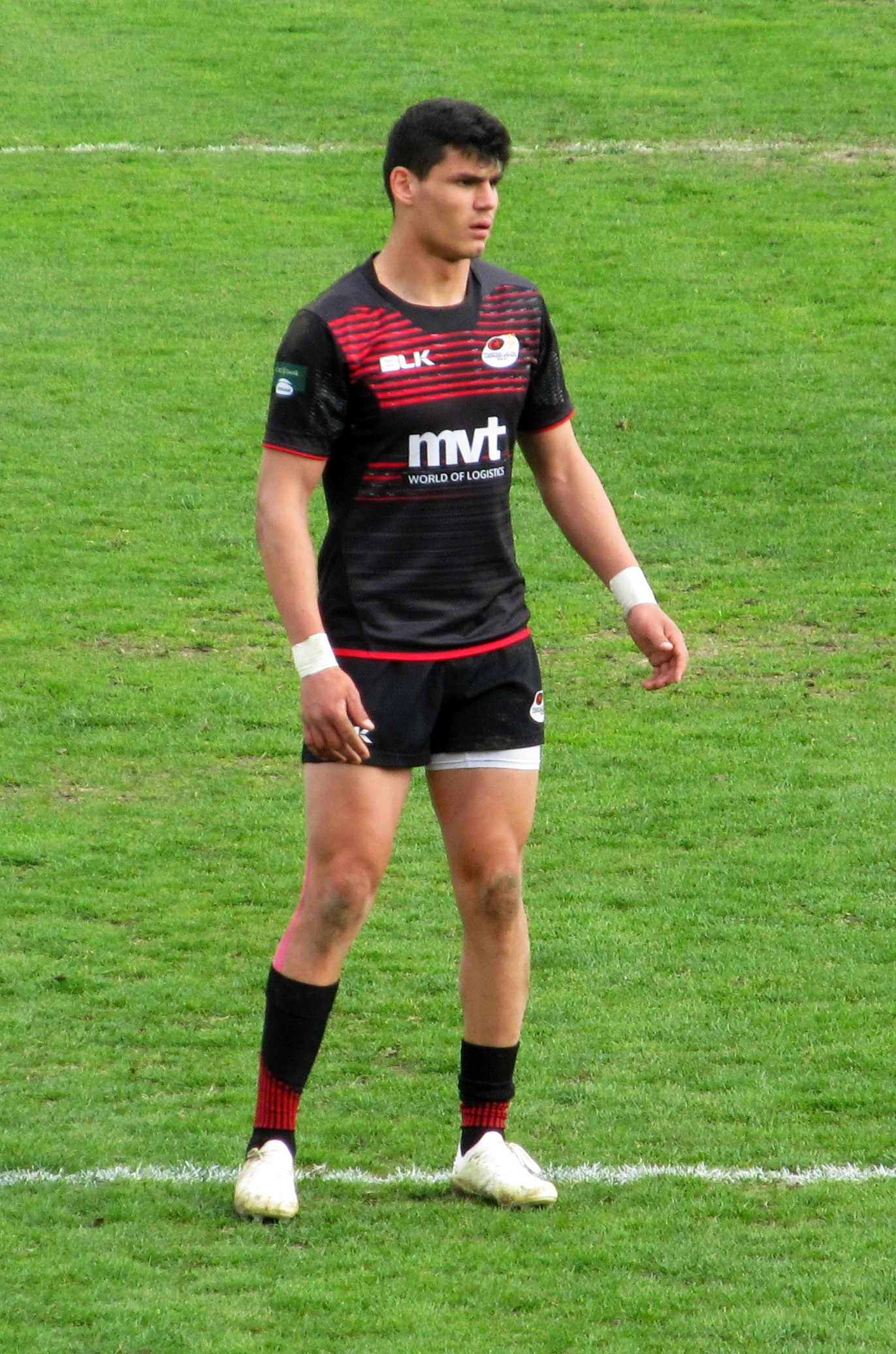 Romanian rugby union football player Marius Simionescu during the 2019 Cupa României Final match between his team, Timișoara Saracens, and rivals CSM București in March 2019